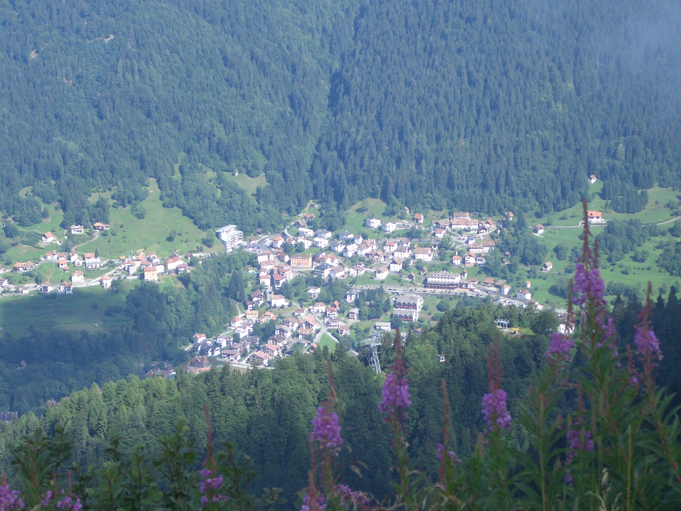 Ravascletto